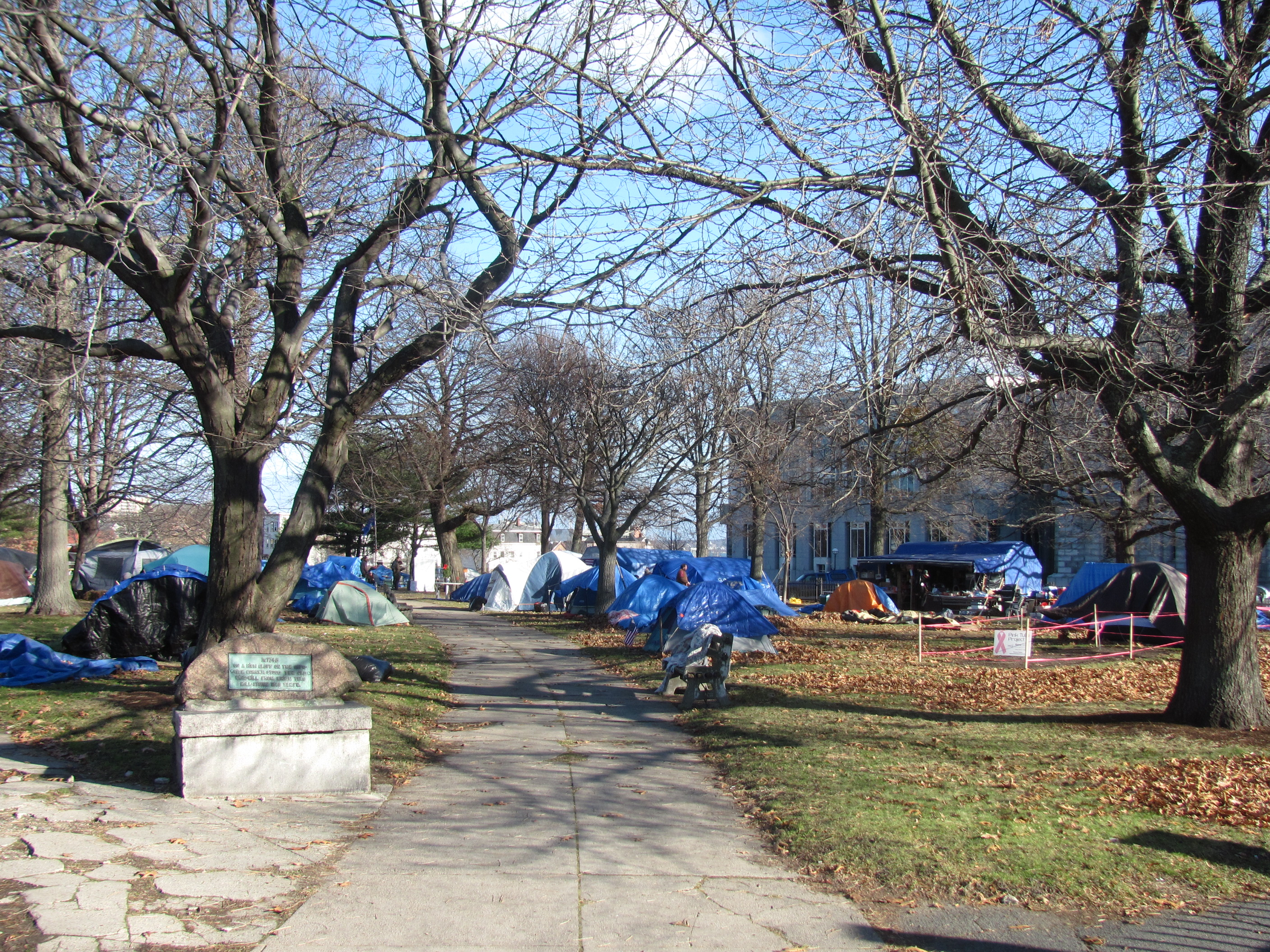 Occupy Portland, Lincoln Park, Portland Maine